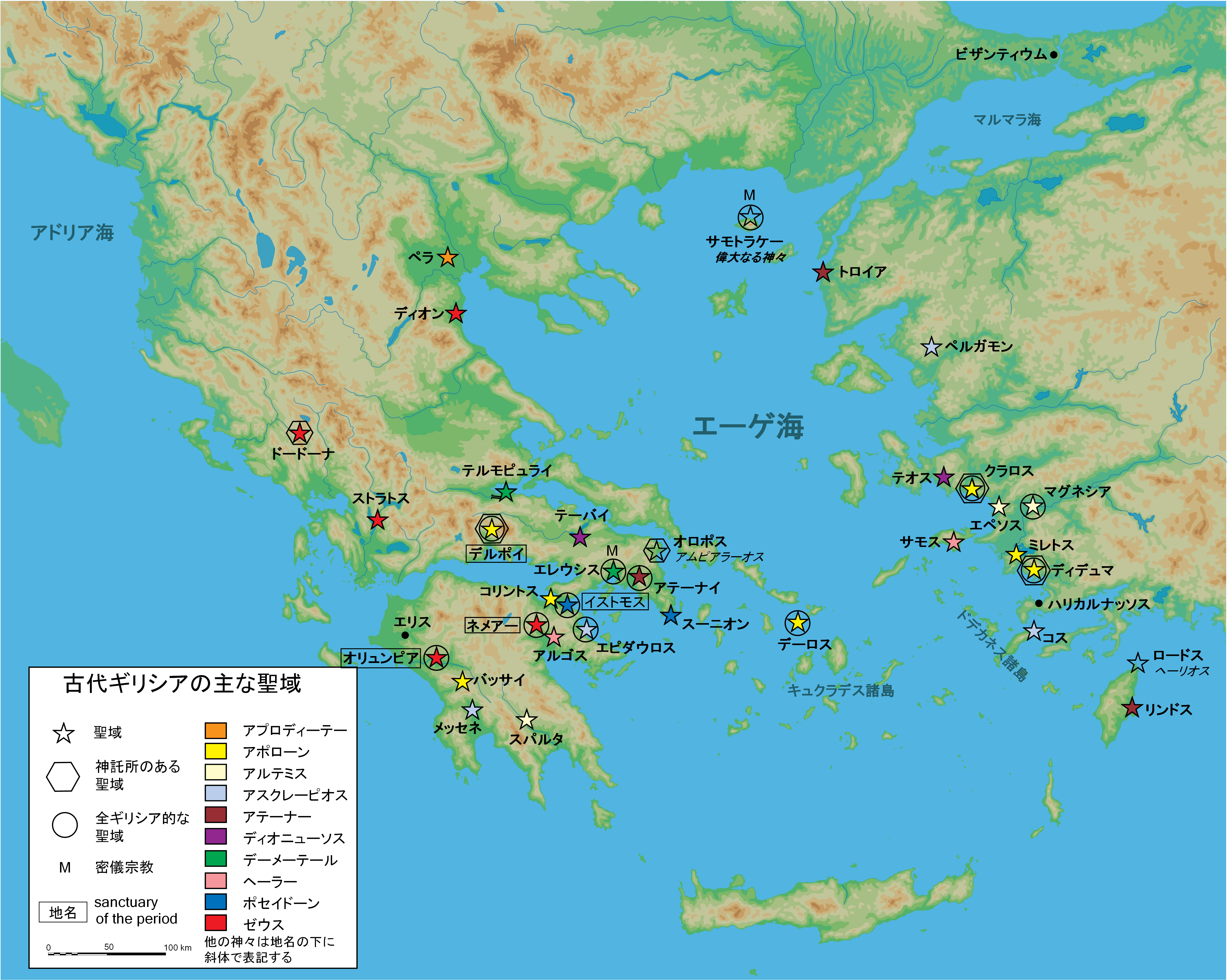 PNG of Map_greek_sanctuaries-ja.svg.